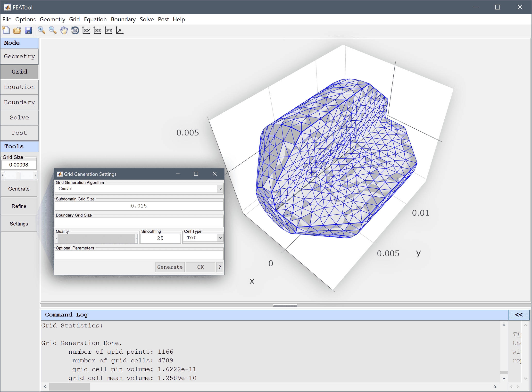 FEATool Multiphysics MATLAB GUI - Mesh and Grid Generation Mode